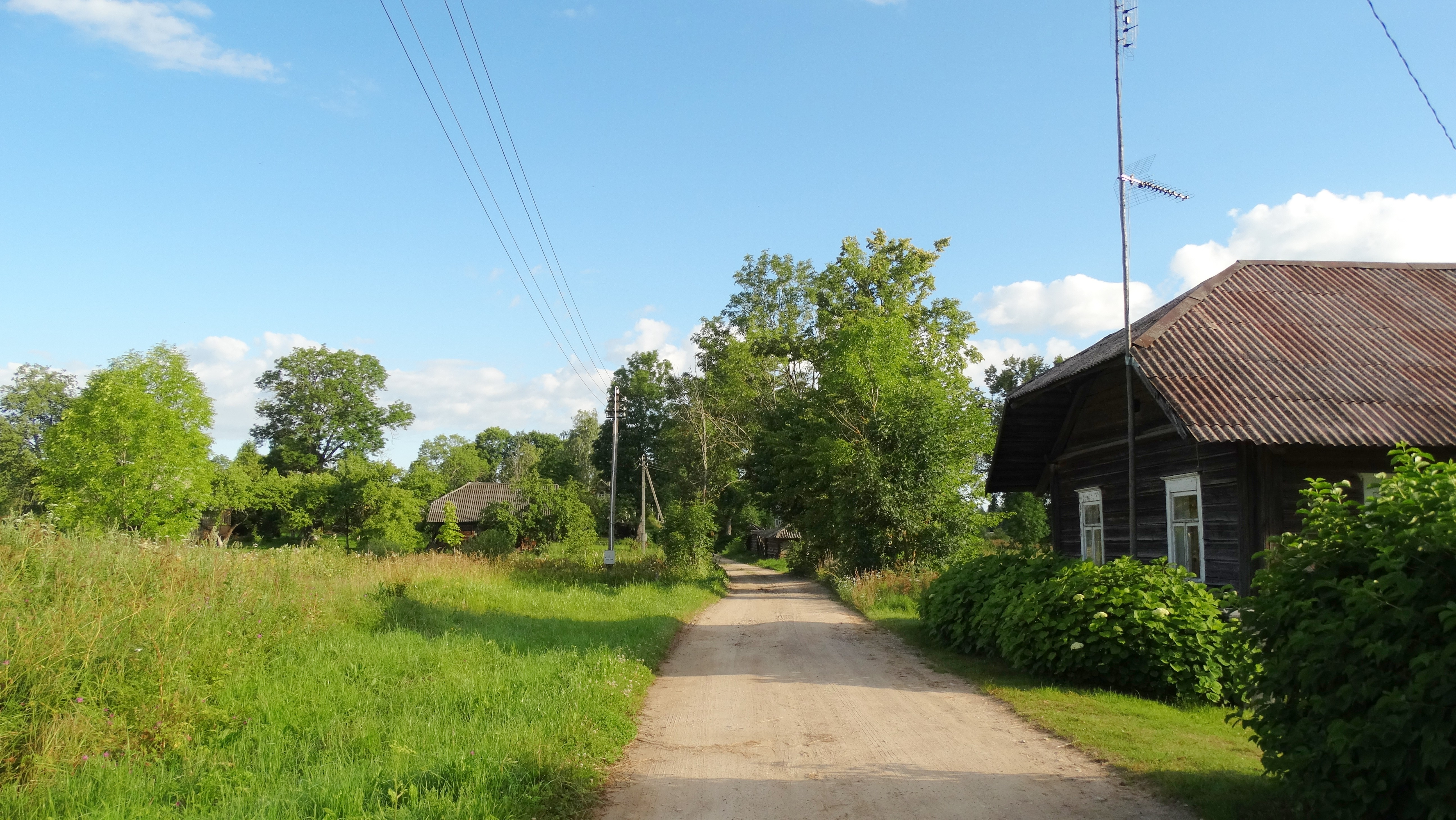 Kretuonys, Švenčionys District, Lithuania